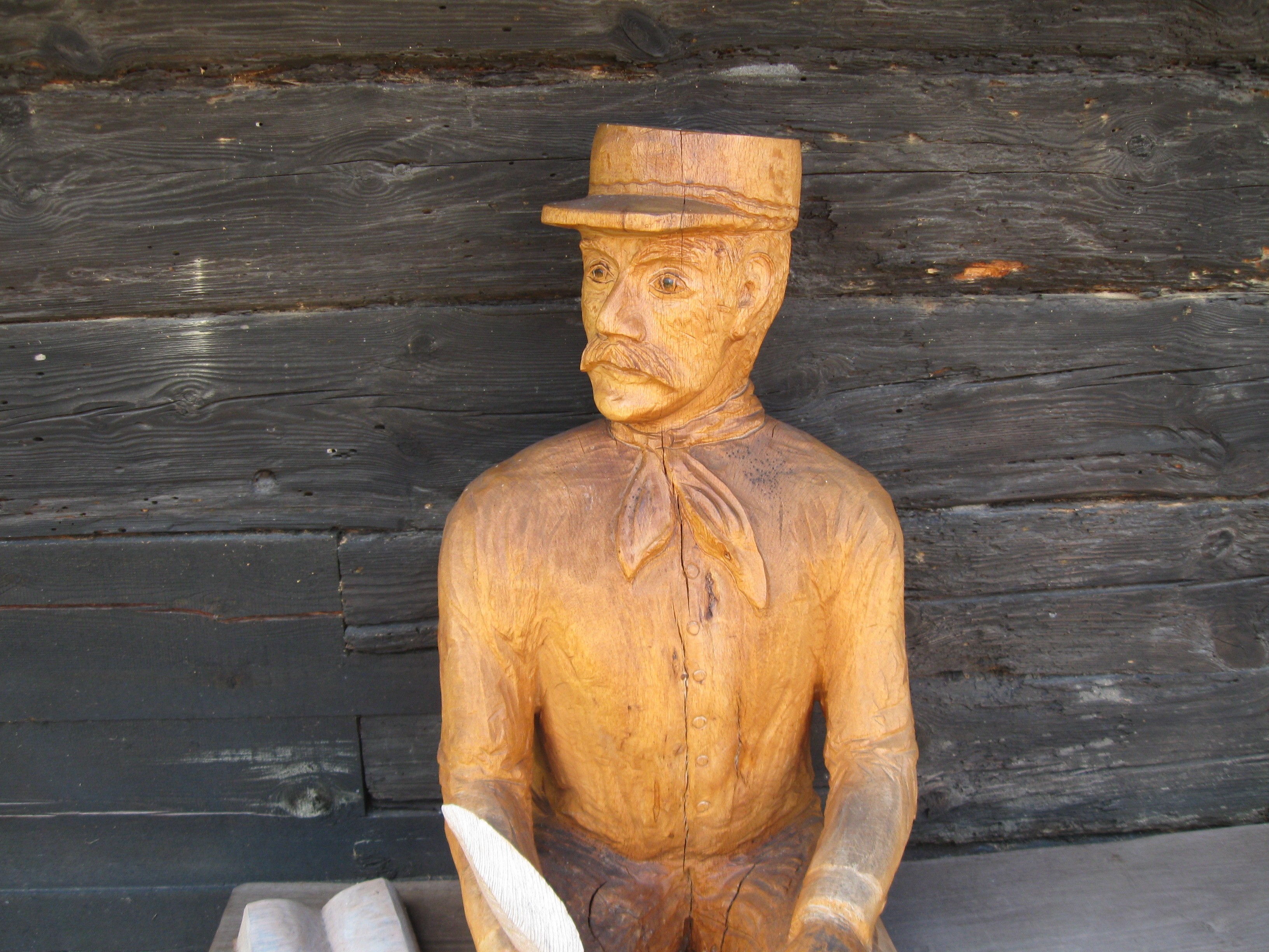 Hanzo Njepila's sculpture in Rowno/Rohne Hornjoserbsce: Hanzo Njepila, socha w Rownom